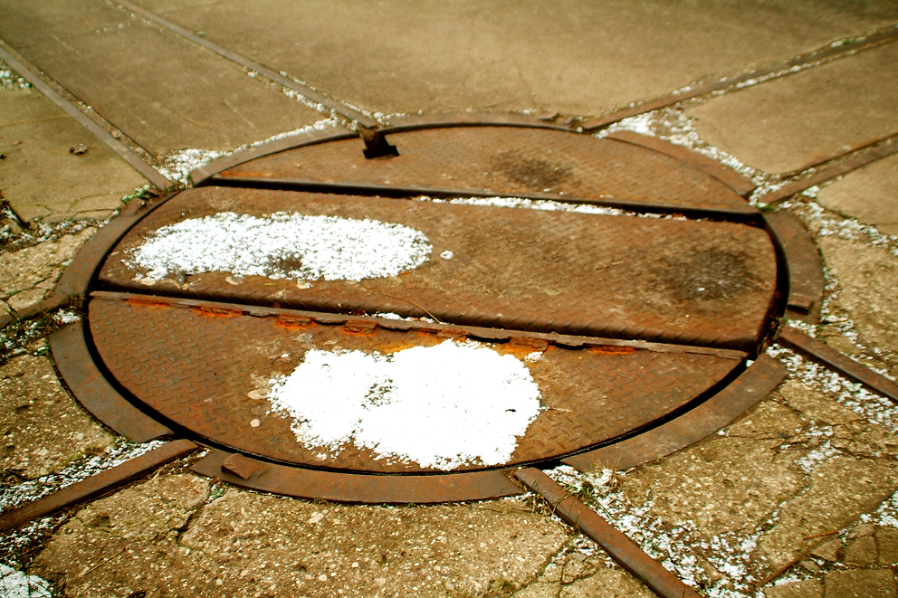 Thanks to all my friends and helpers